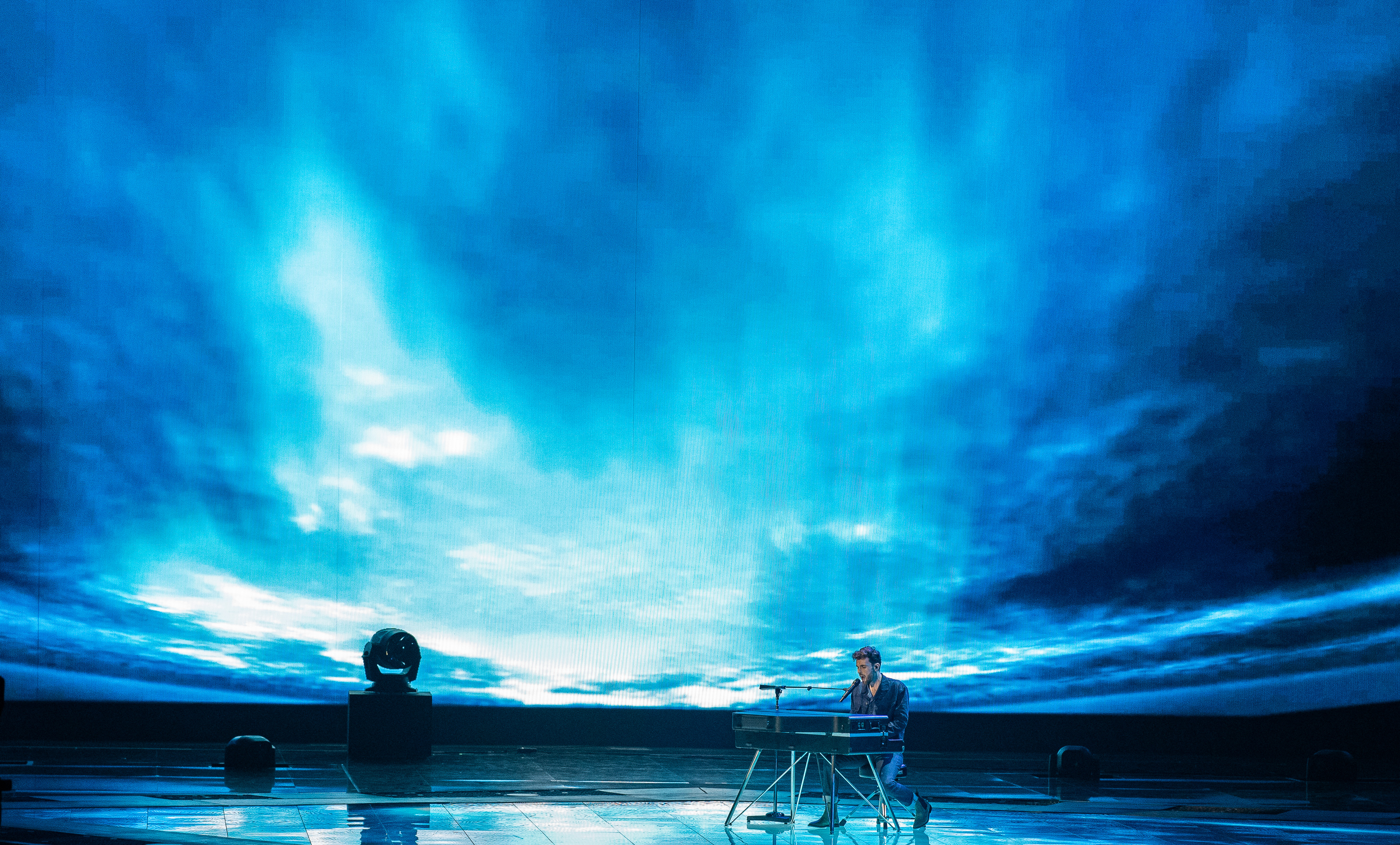 At the 2019 Eurovision Song Contest Semi-final 2 dress rehearsal